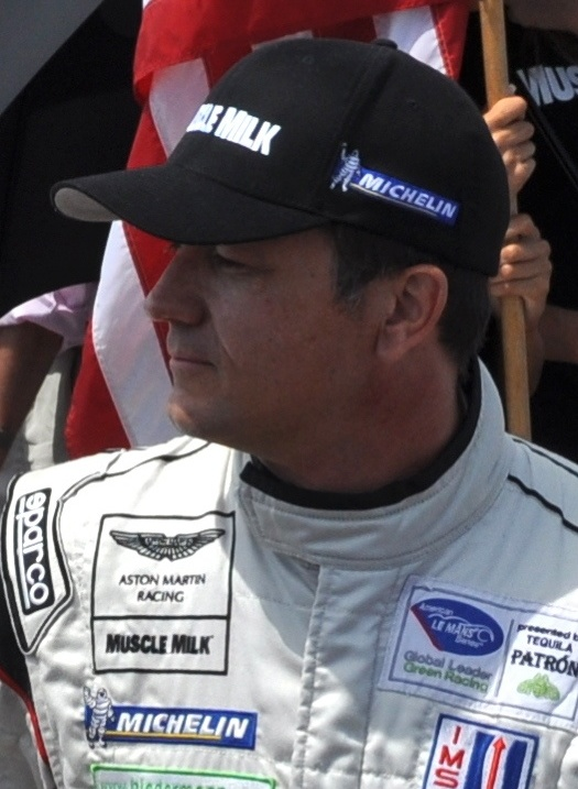 Grandprix of Mosport 2011